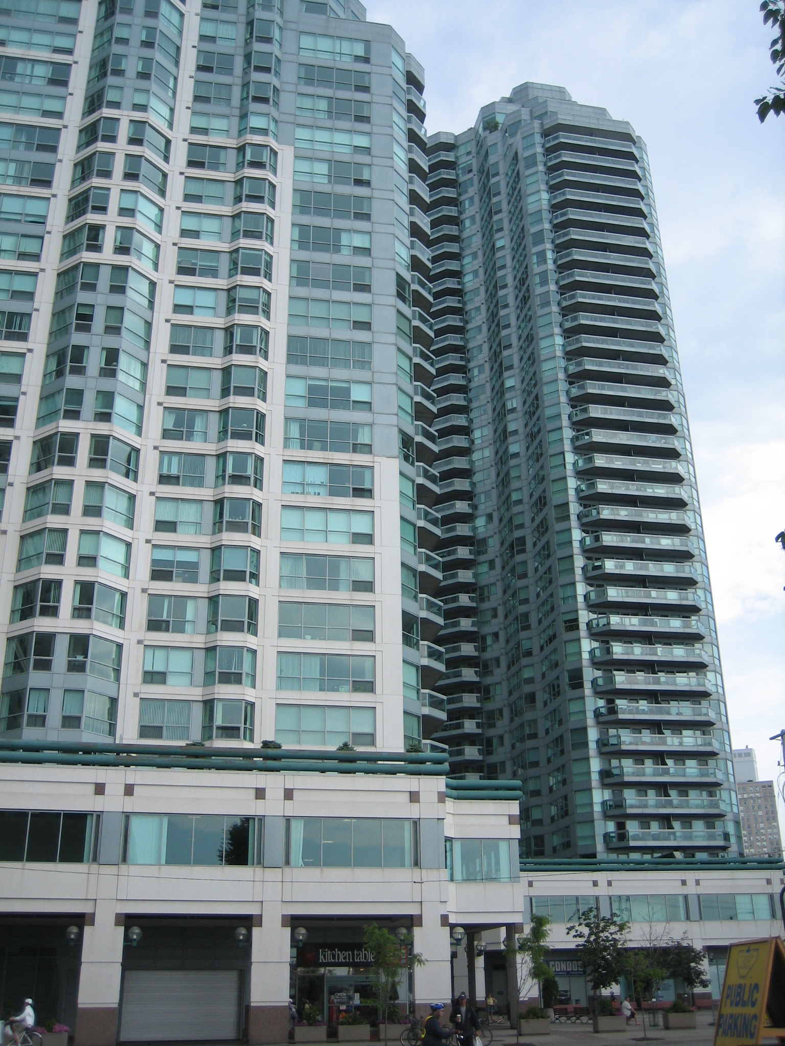 World Trade Centre (Toronto)